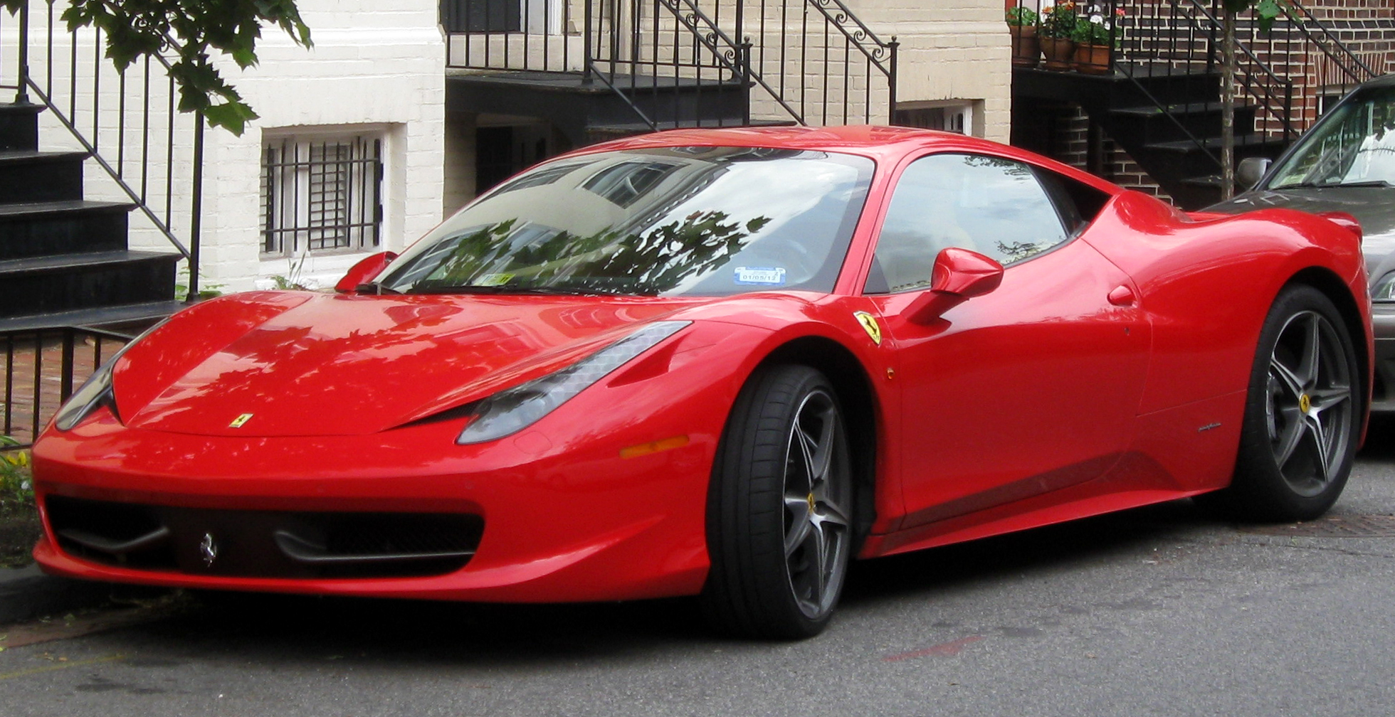 Ferrari 458 Italia photographed in Washington, D.C., USA.